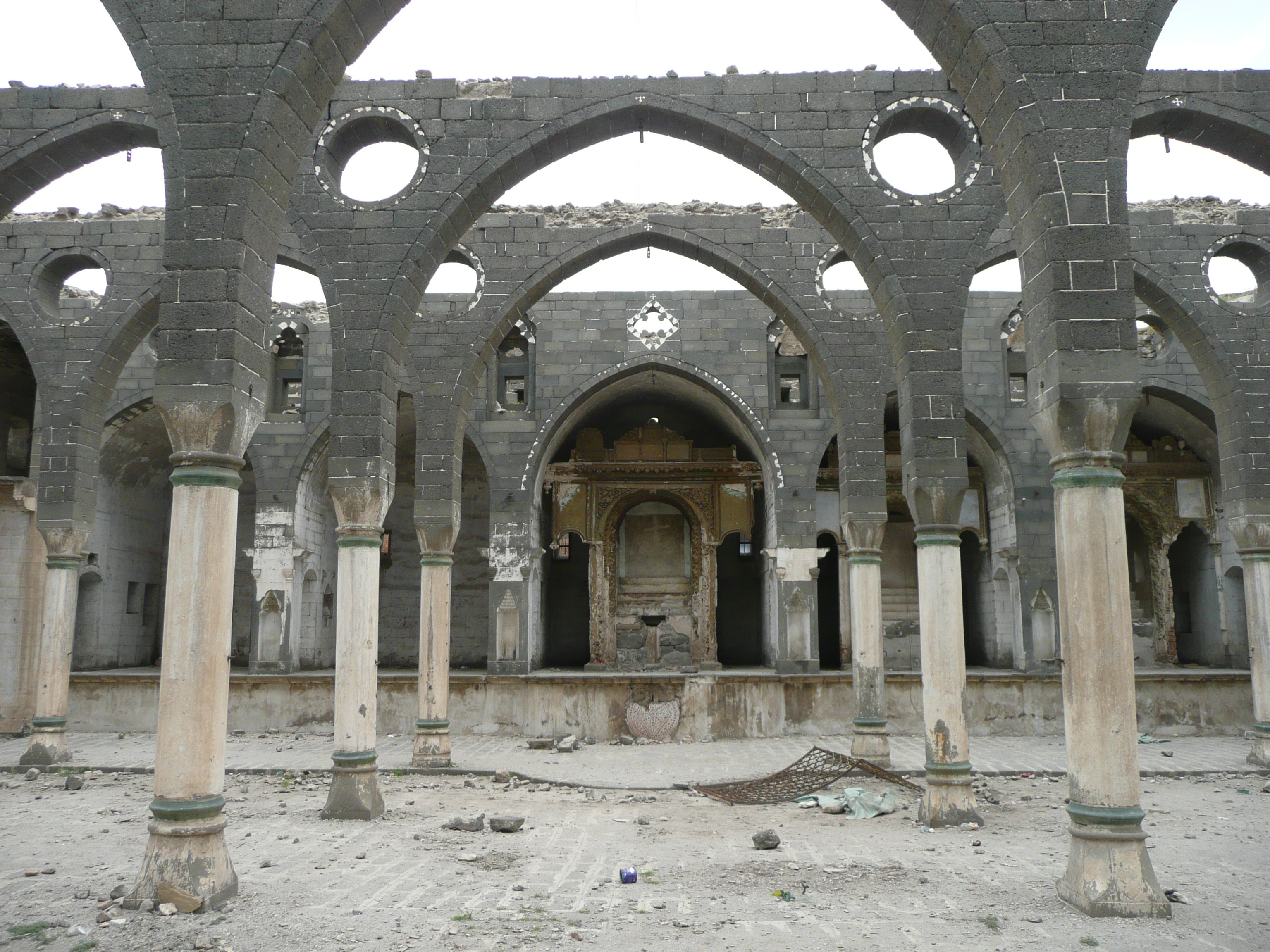 Saint Giragos church, Diyarbakir, Turkey